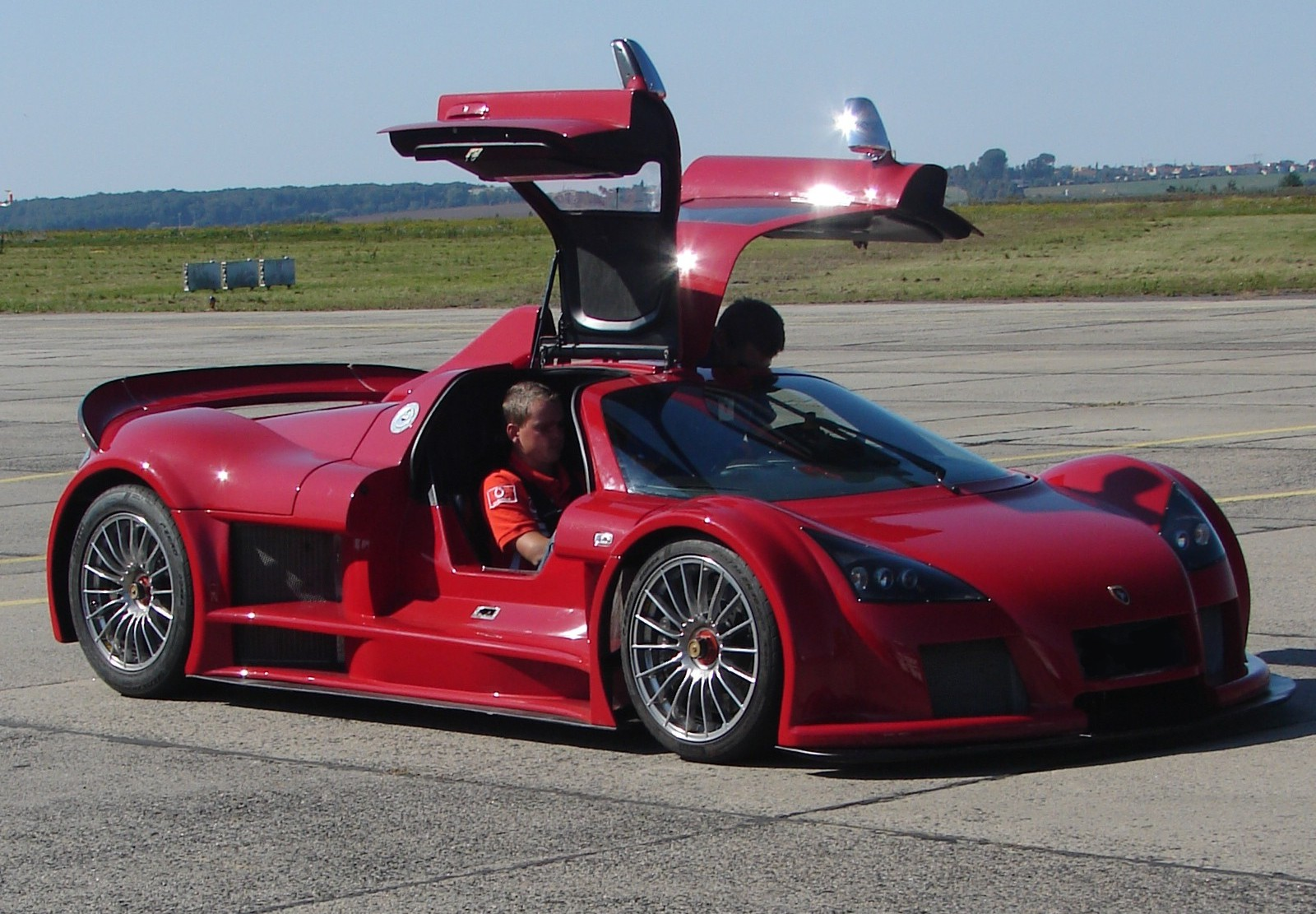 The Gumpert Apollo on the Leipzig-Altenburg Airport